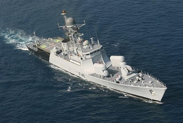 INS Kuthar (P46), a Khukri class corvette of the Indian navy